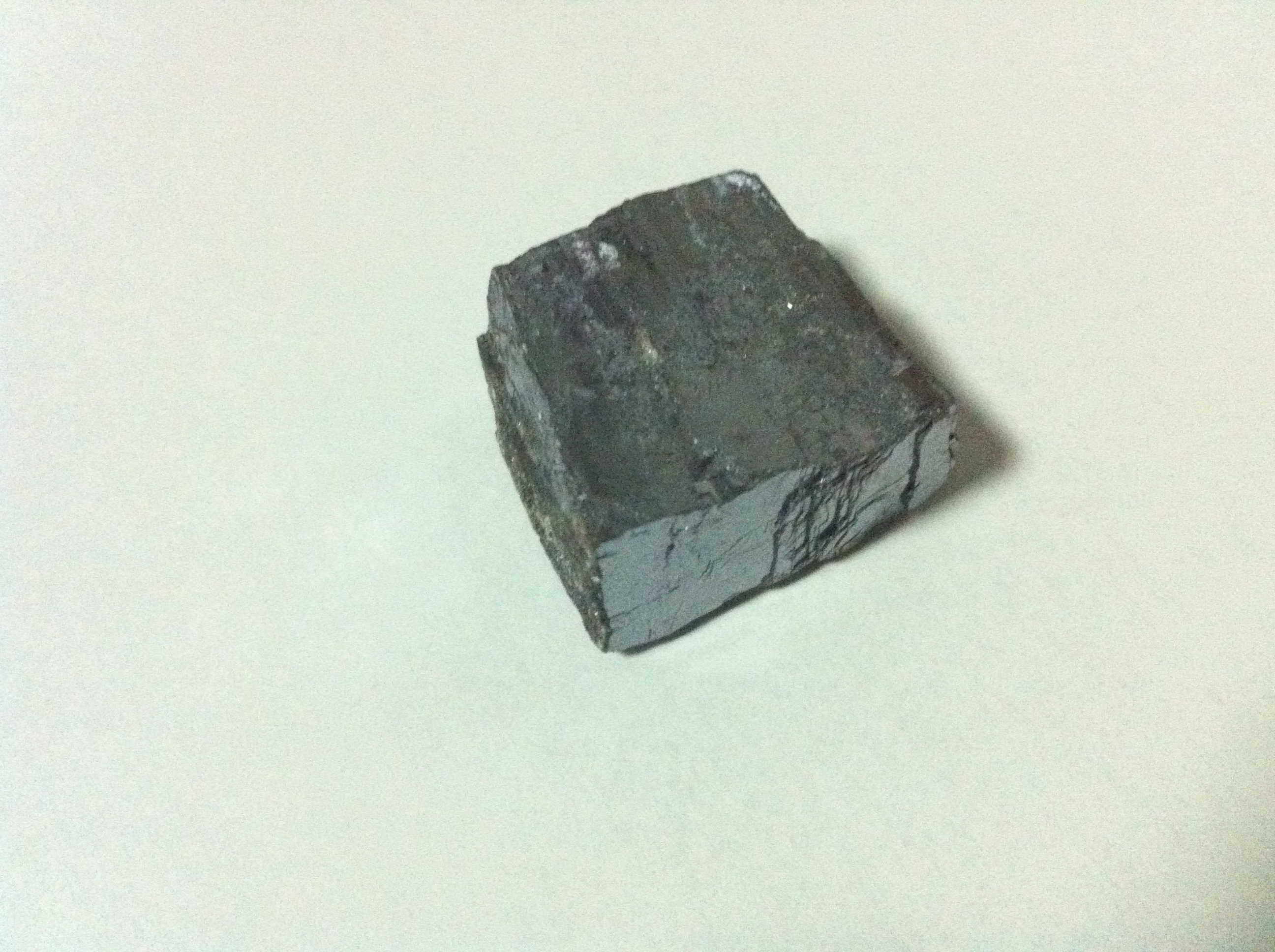 A sample of stibium.